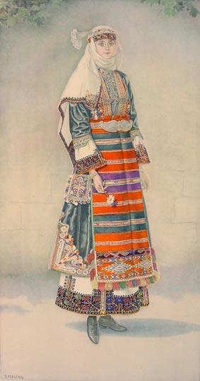 Greek Macedonian Peasant Woman's Dress (Macedonia, Kapoutsides) - Greek Costume Collection by NICOLAS SPERLING (Russia 1881-1940 / act: Athens).